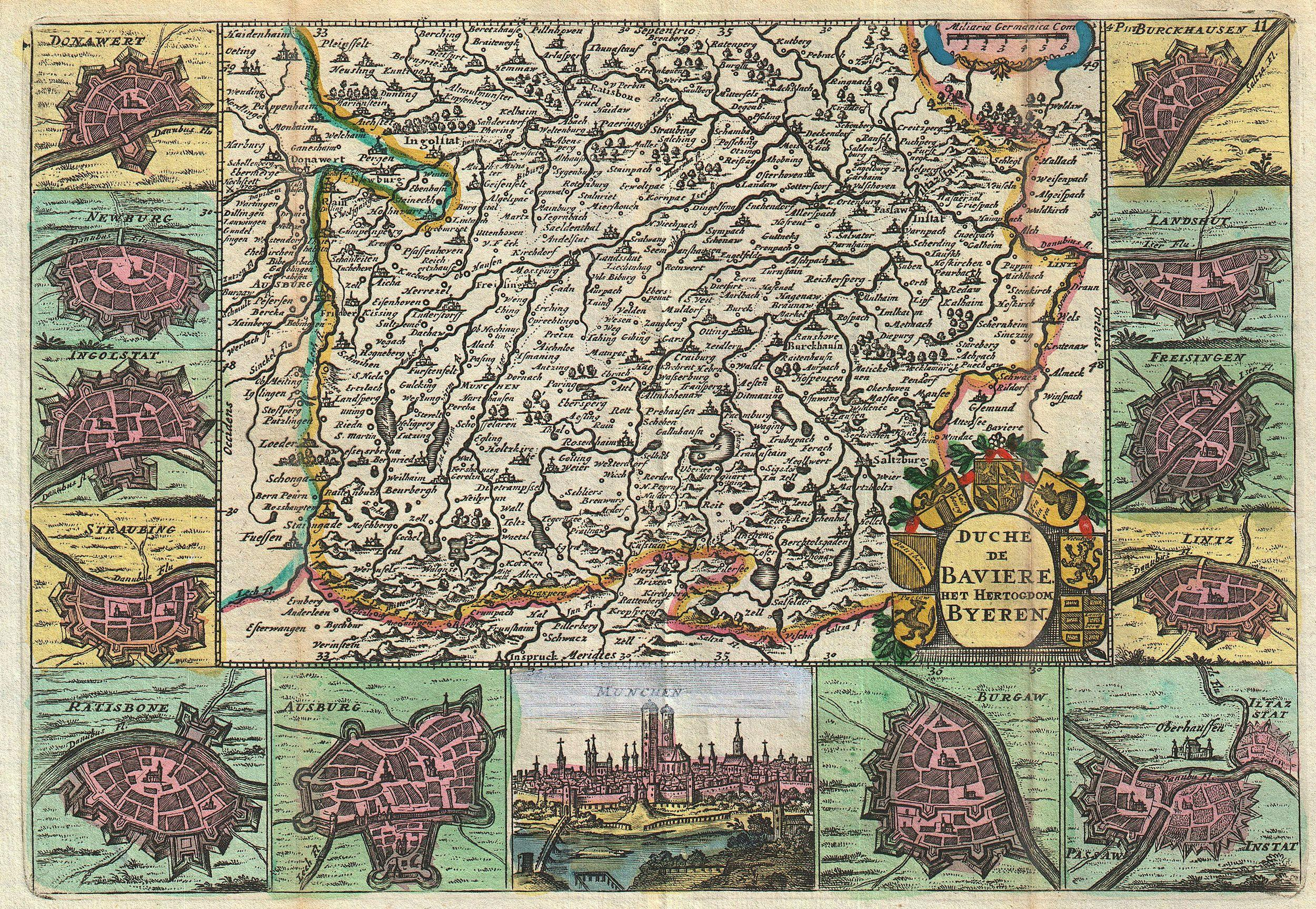 A stunning map of Bavaria, Germany first drawn by Daniel de la Feuille in 1706. Includes Munich and Augsburg. Surrounded by thirteen maps and views of important villages and fortresses in this region. From top right in a clockwise fashion these include Burkhausen, Landshut, Freisingen, Lintz, Instat, Burgaw, Munchen (Munich), Ausburg (Augsburg), Ratisbone, Straubing, Ingolstat (Ingolstadt), Newburg and Donawert. Title cartouche in the lower right hand quadrant features seven armorial crests, each representing a Bavarian city. This is Paul de la Feuille’s 1747 reissue of his father Daniel’s 1706 map. Prepared for issue as plate no. 12 in J. Ratelband’s 1747 Geographisch-Toneel .